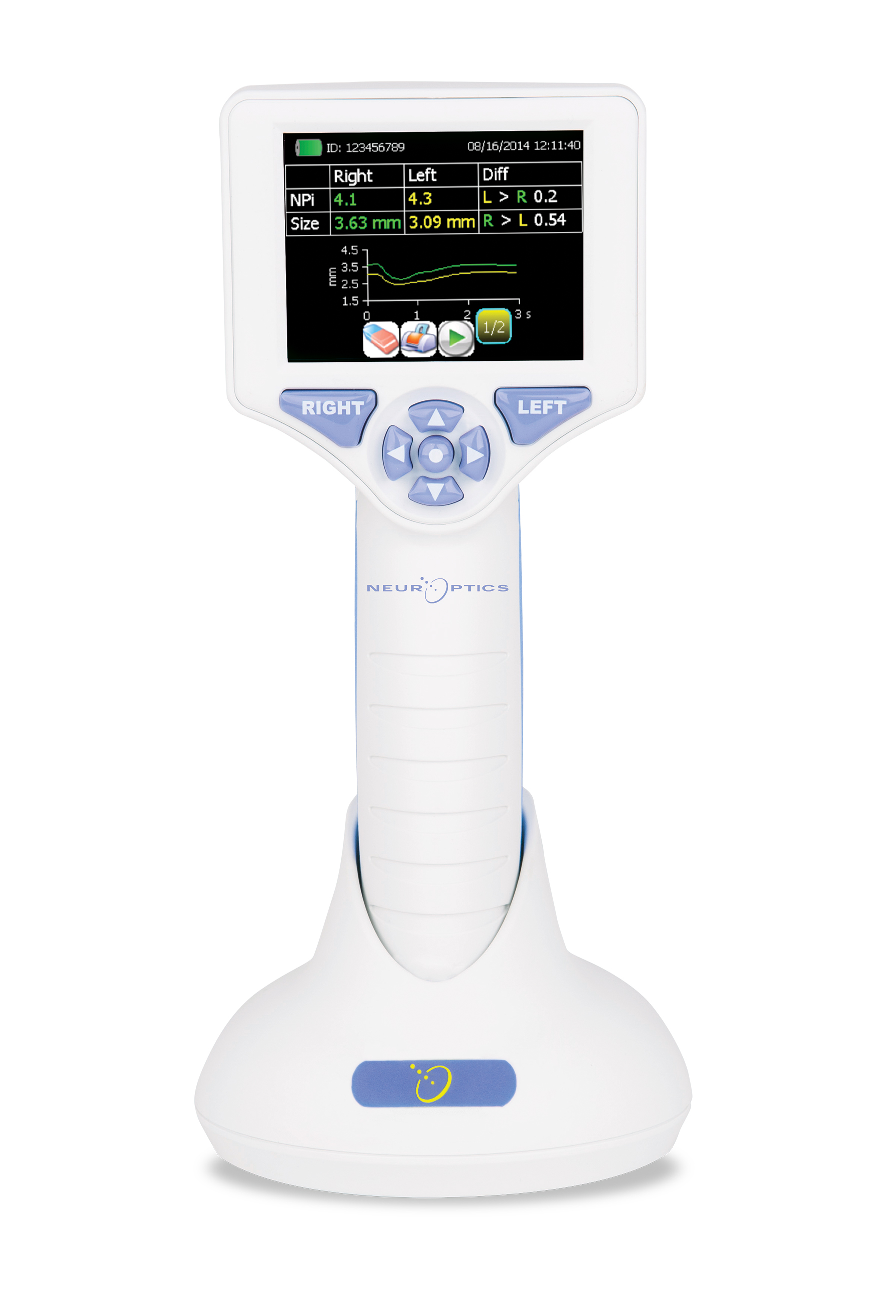 NeurOptics, Inc. Pupillometer